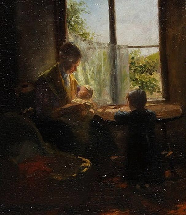 Moeder met kind en kleuter bij een zonverlicht raam